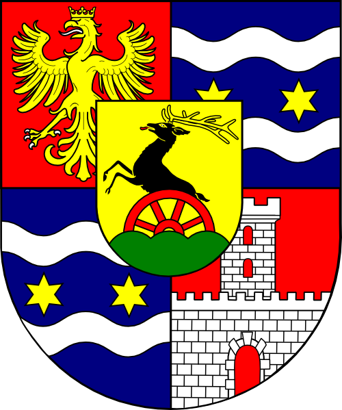 Coat of arms (shield only) of László Ádám Erdődy, bishop of Nitra, Slovakia (1706 - 1736), based on his seal